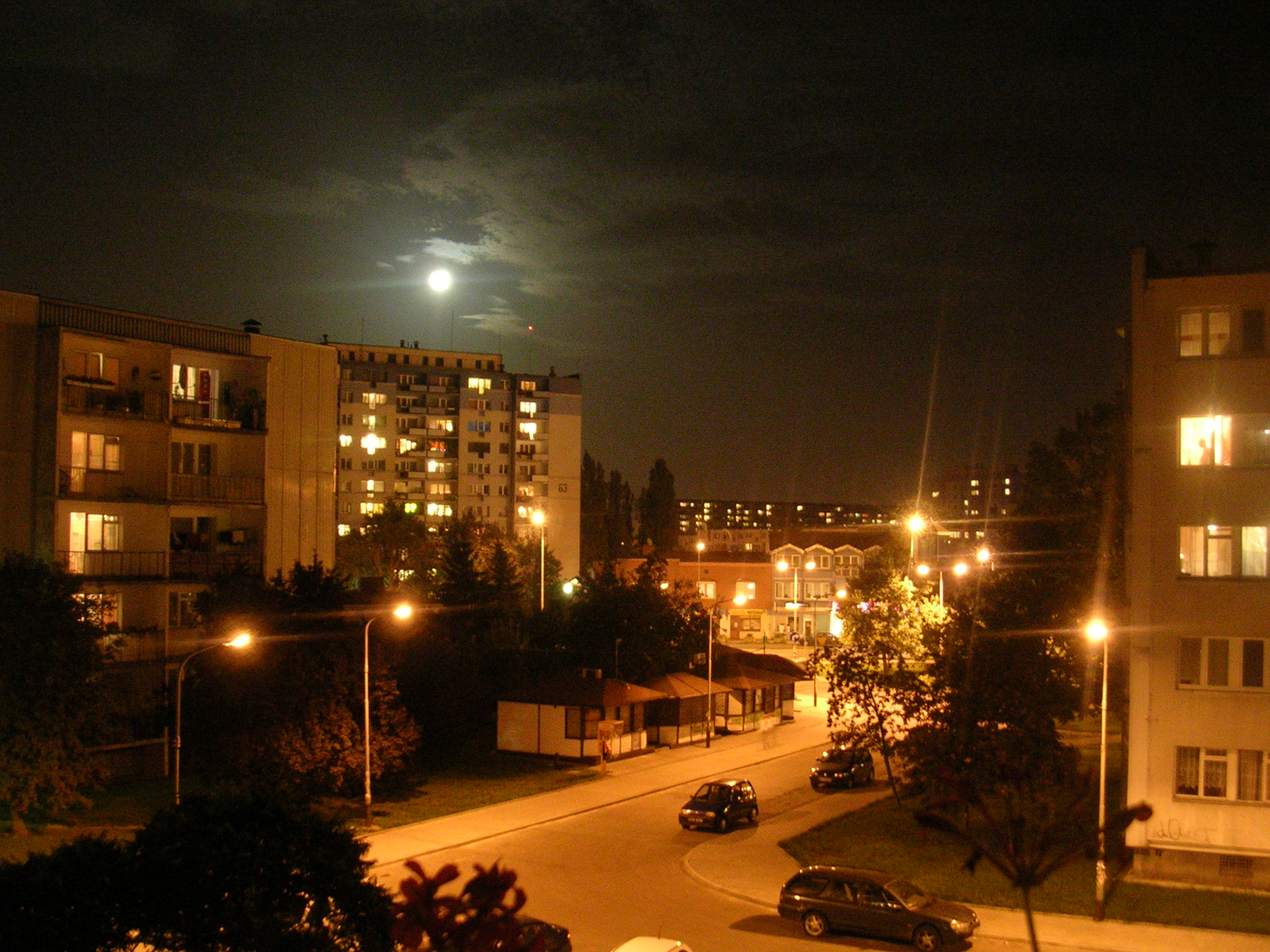 My housing estate at night.